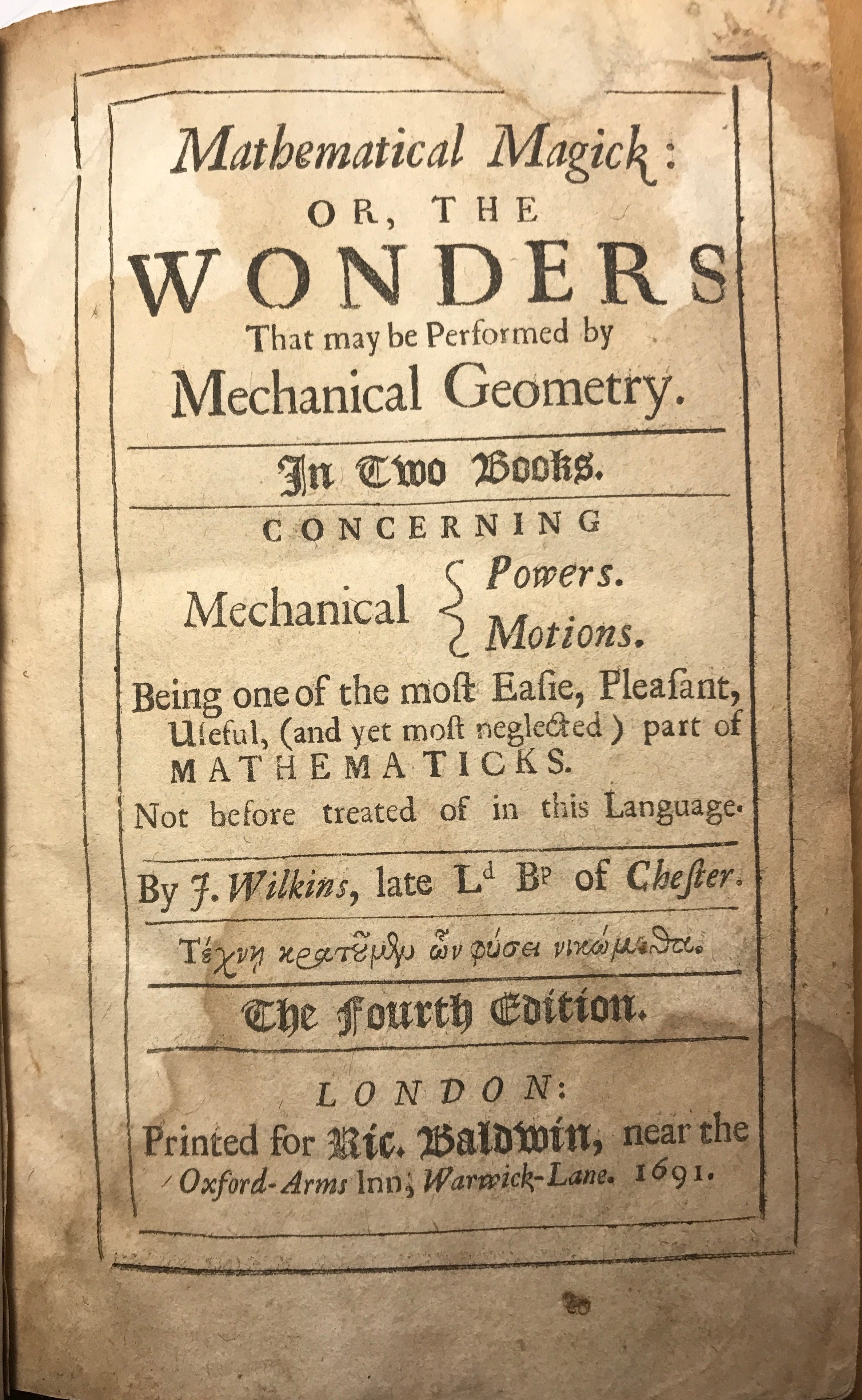 Photograph of the title page of the 1691 edition of John Wilkins' "Mathematical Magick: or, the Wonders That may be Performed by Mechanical Geometry"